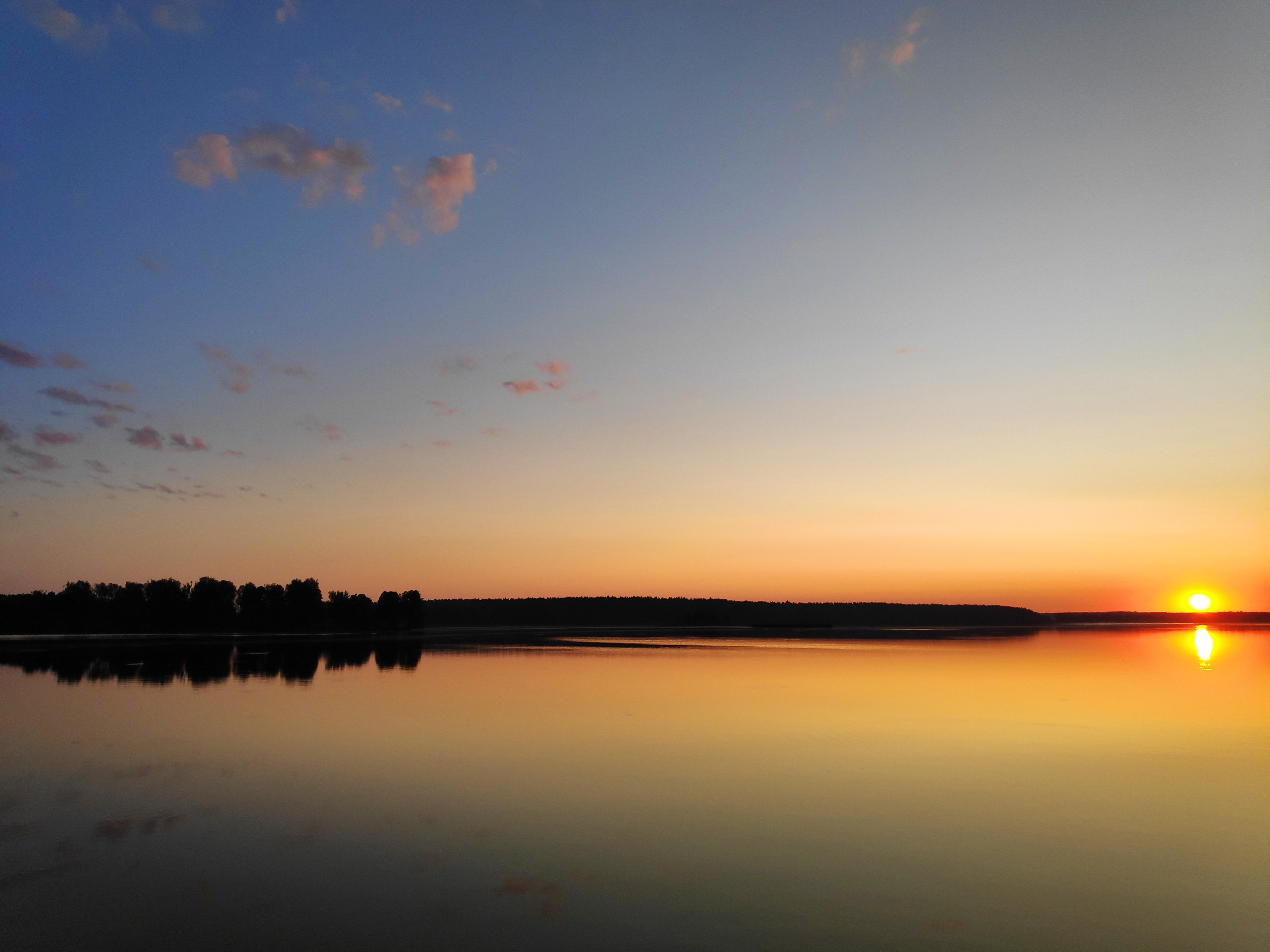 Sunrise at Asipovichy Reservoir